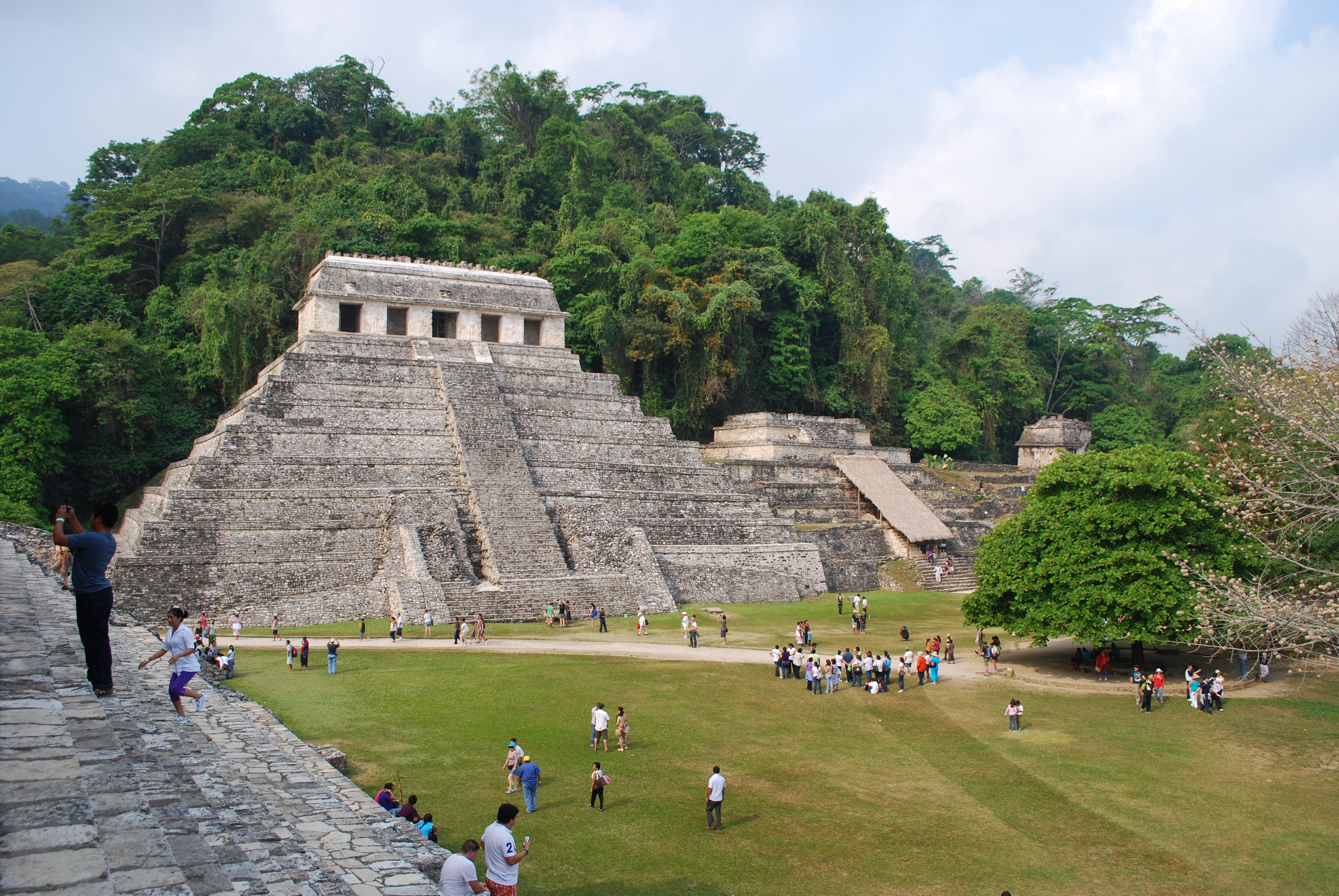 View of the Temple XIII and Temple of Inscriptions from the Palace at Palenque, Chiapas, Mexico